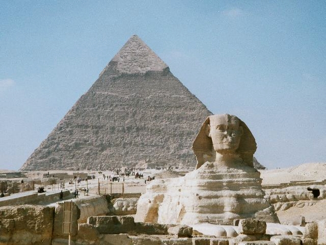 The Pyramid of Khafre and the Great Sphinx of Giza on the Giza Plateau, Cairo, Egypt..